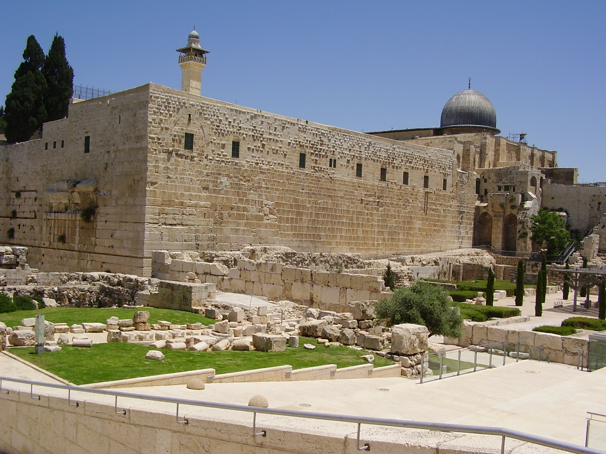 archeological garden in jerusalem